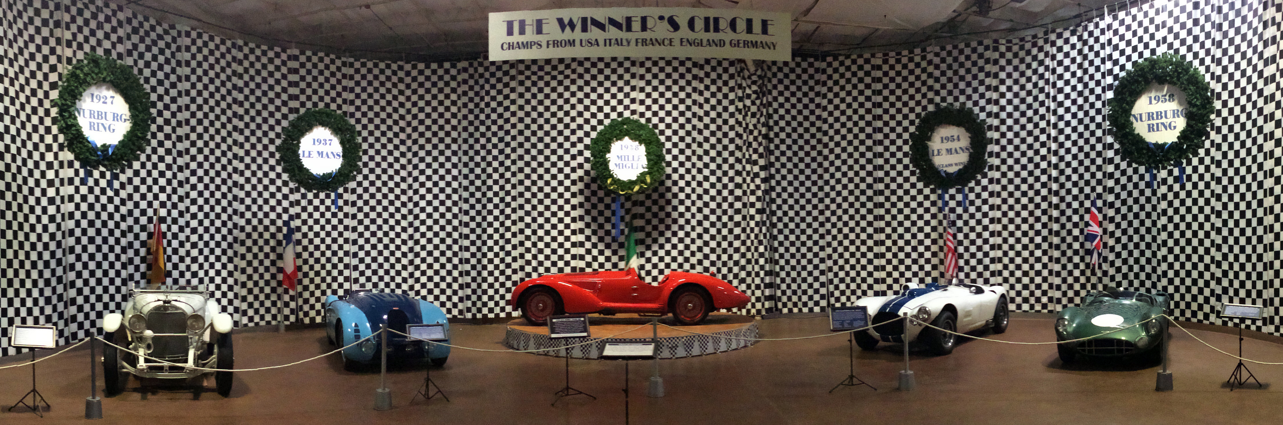 Winners Circle exhibit at the Simeone Foundation Automotive Museum in Philadelphia, PA, featuring (L-to-R) 1927 Mercedes Benz Sportwagen, 1936 Bugatti Type 57G Tank, 1938 Alfa Romeo 8C 2900B MM, 1952 Cunningham C-4R, 1958 Aston Martin DBR1